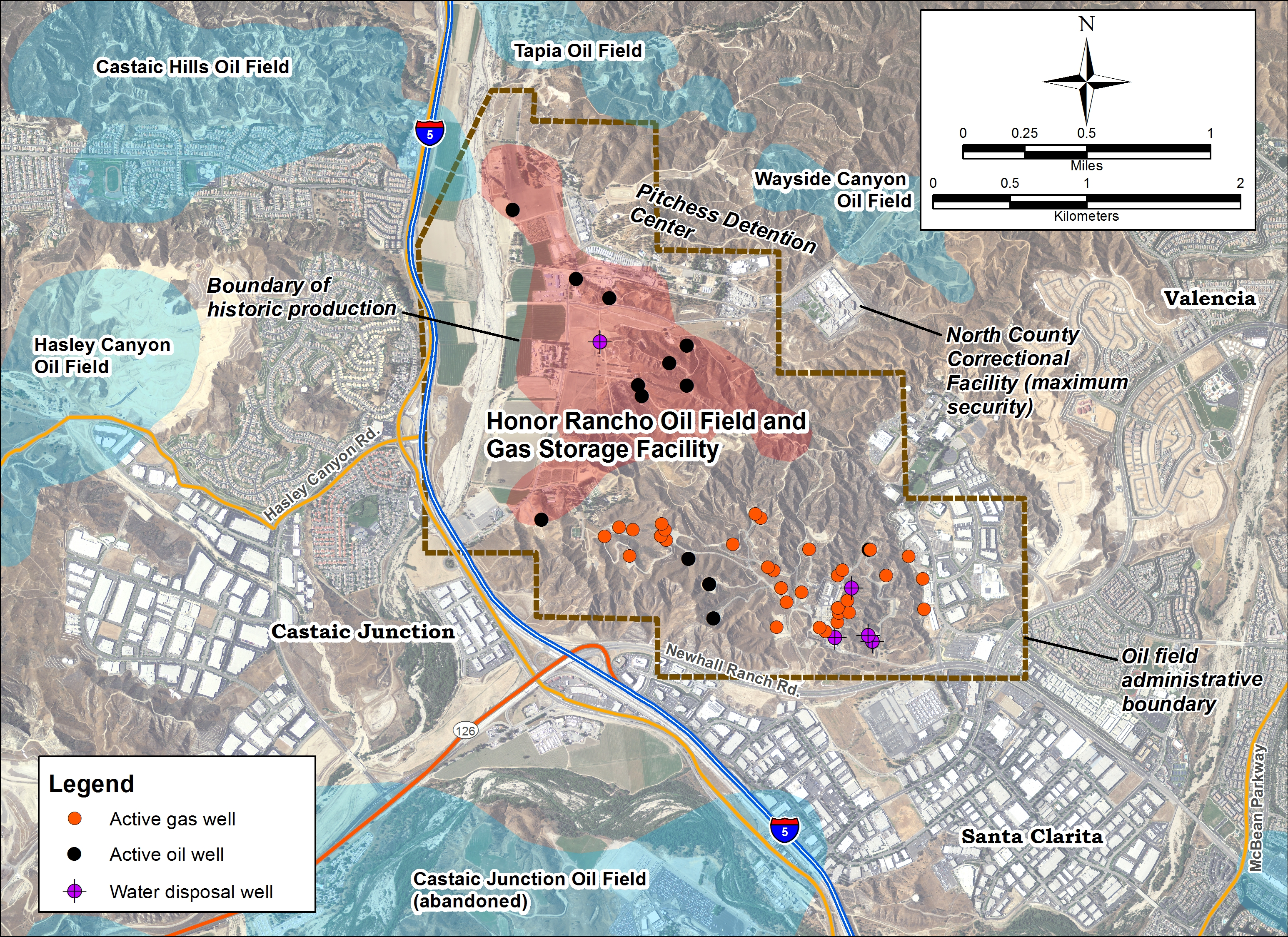 Detail of Honor Rancho Oil Field and Southern California Gas Co. storage facility, showing adjacent maximum security prison, etc. Uses data which is public domain and freely licensed (aerial is USDA NAIP 2010,work of US government, etc.) Map by self in ArcGIS 10.2.